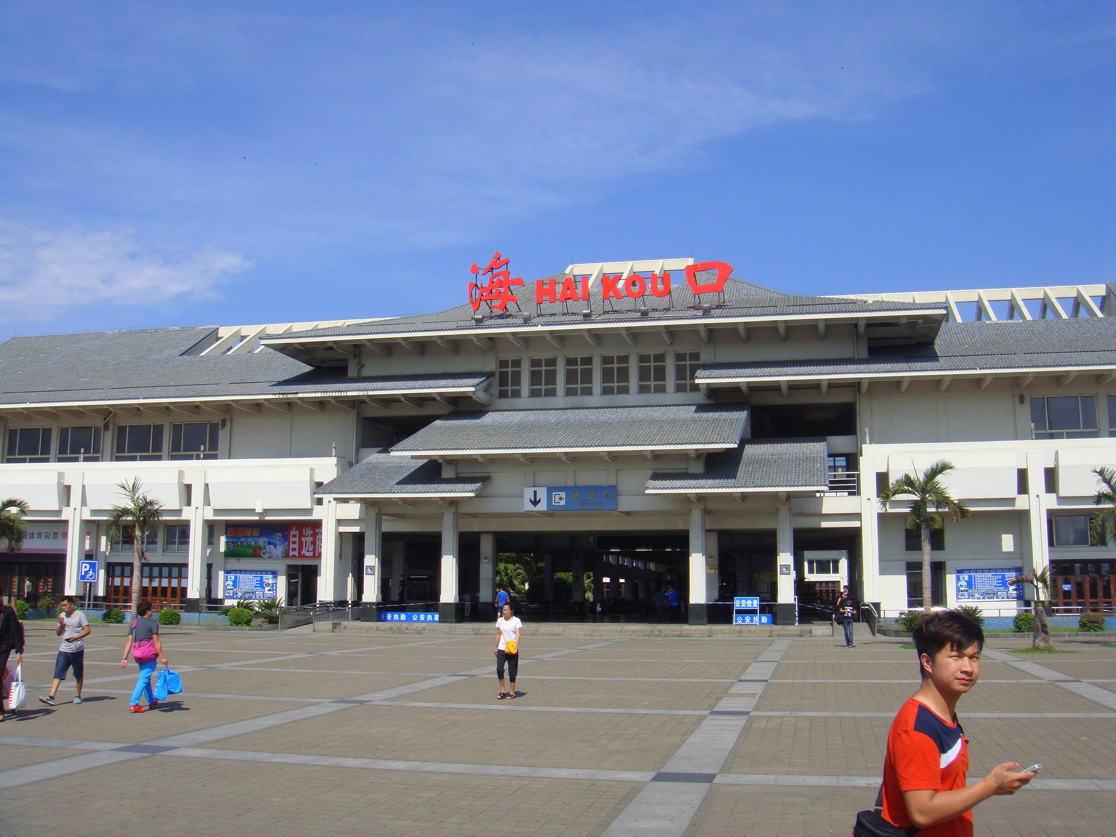 Haikou Train Station